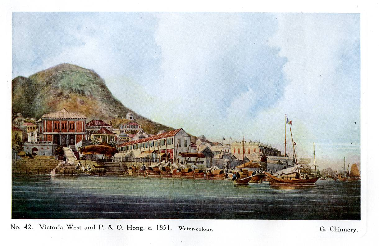 Watercolour of Victoria West and Peninsular and Oriental Steam Navigation Company.